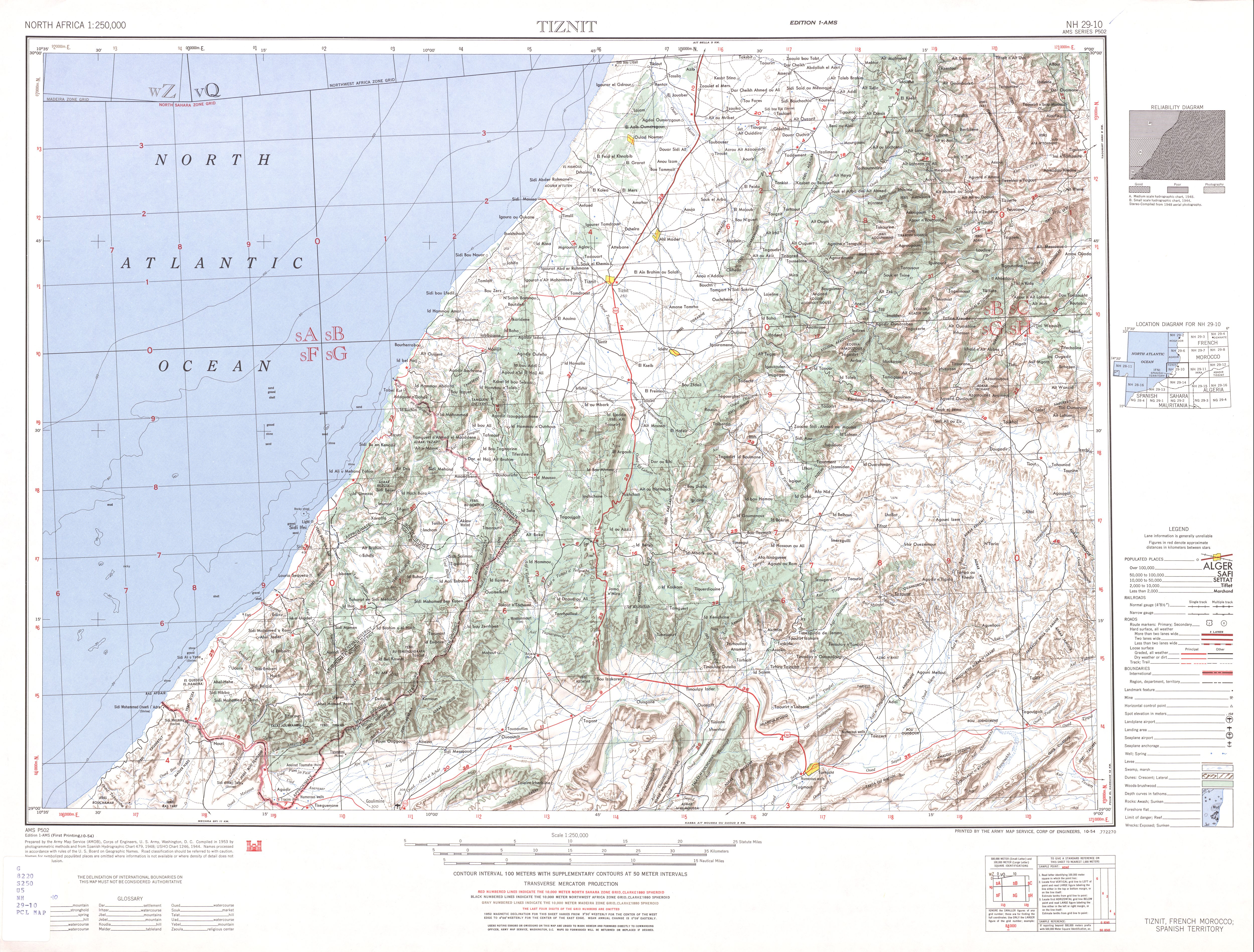 map sheet of southern Morocco, showing former Spanish Ifni Province